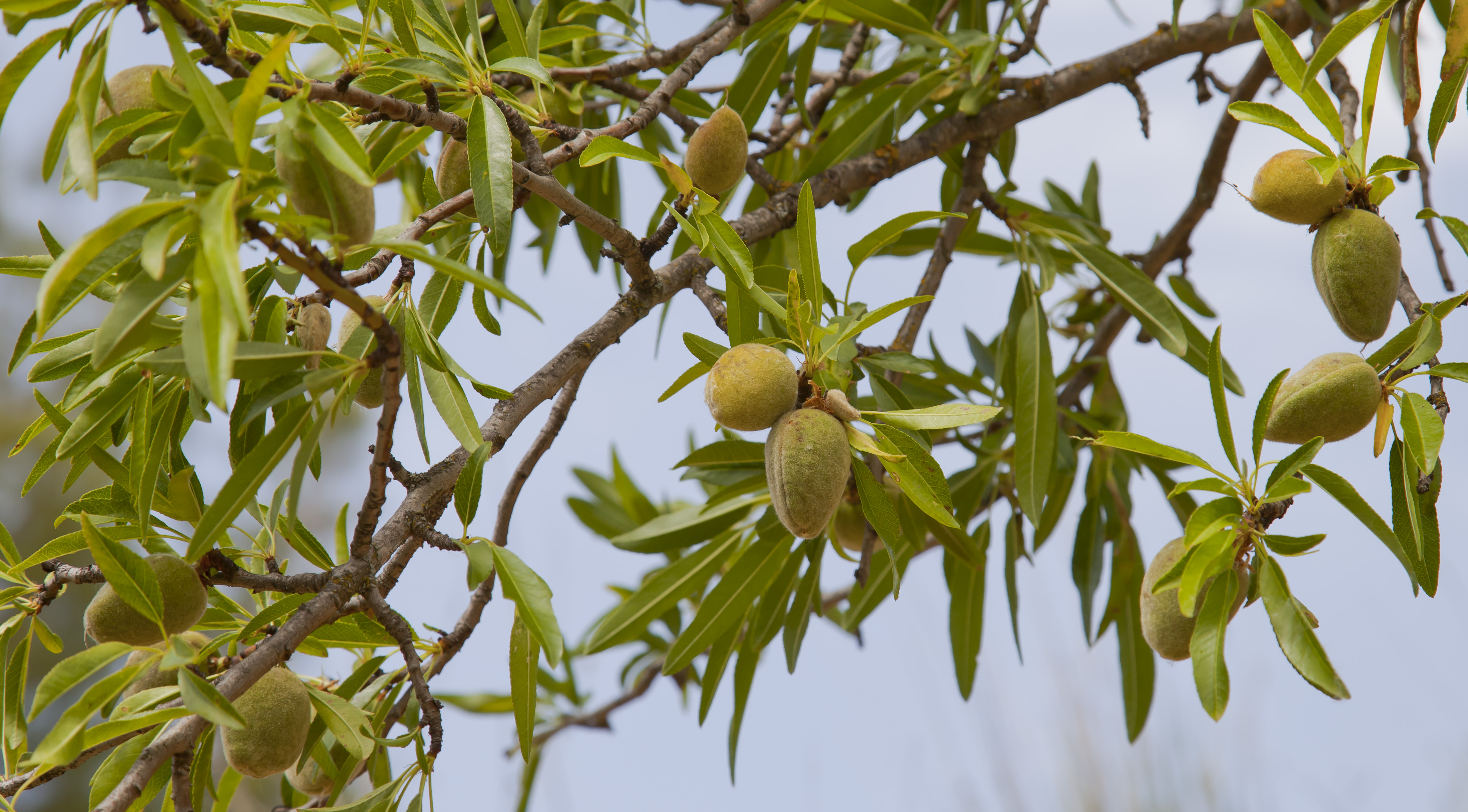 Almonds (Prunus dulcis), Huermeda, Spain